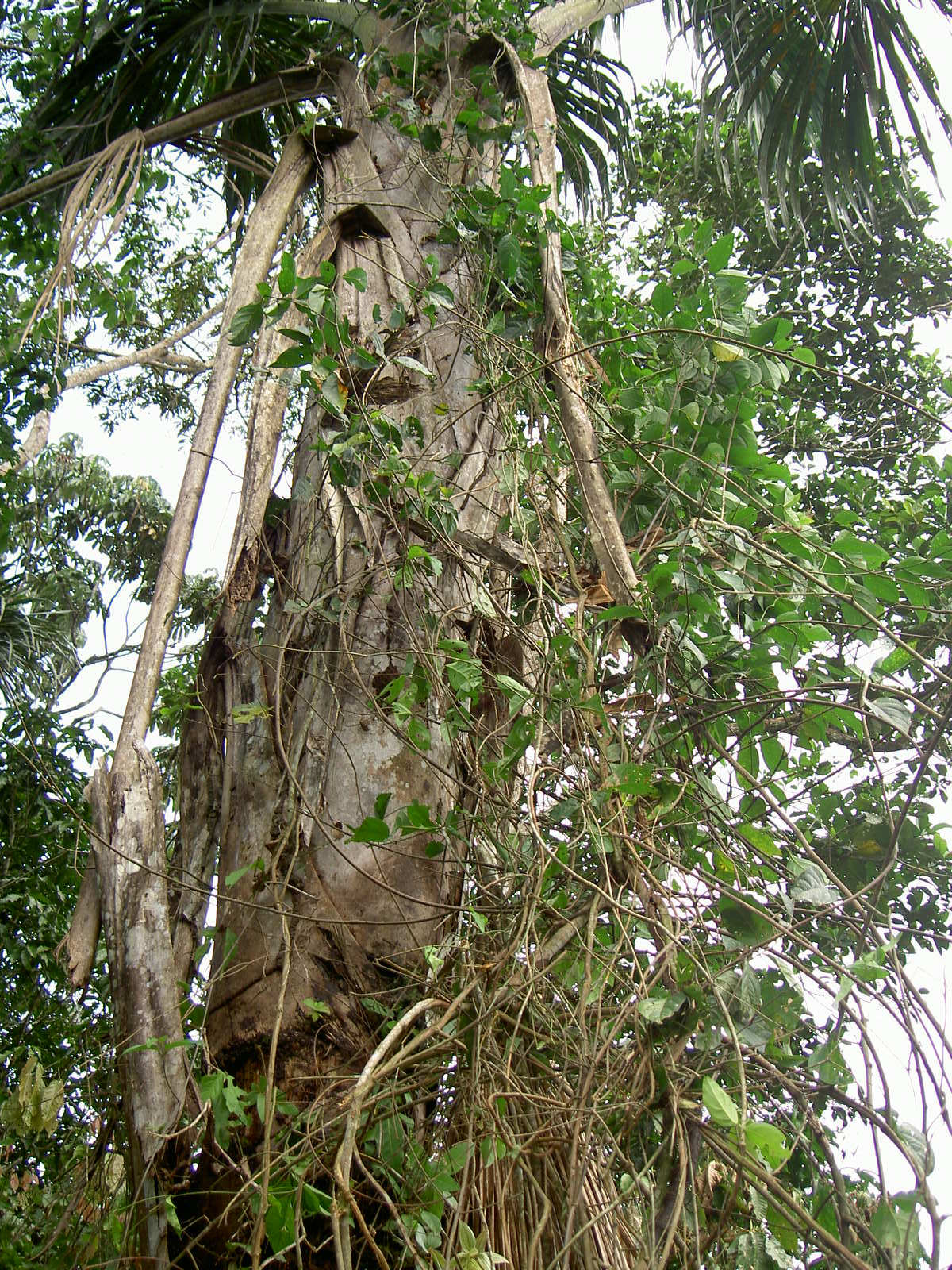 Banisteriopsis caapi, Province of Pastaza, Ecuador